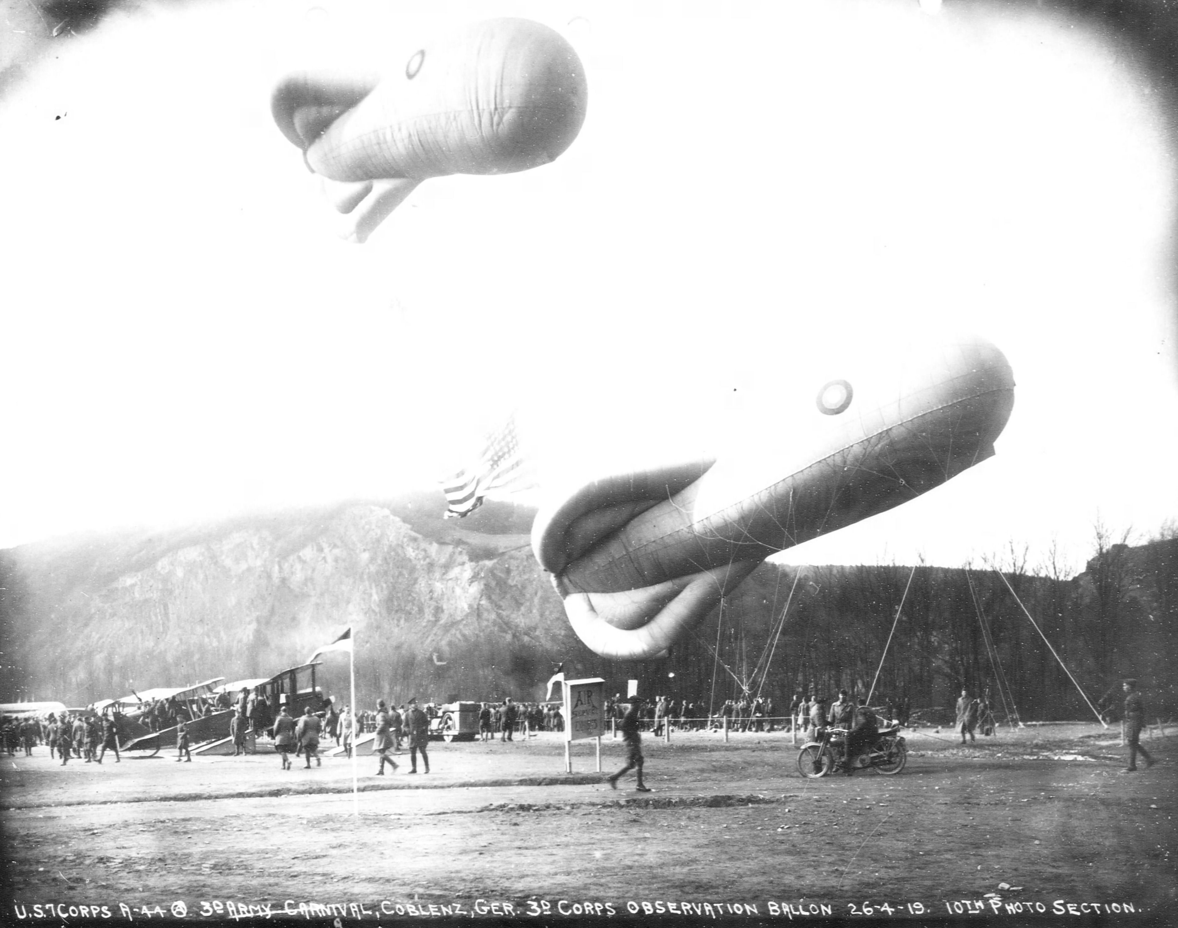 Caquot Observation balloons on display at the Third Army Coblenz Air Show - April 1919